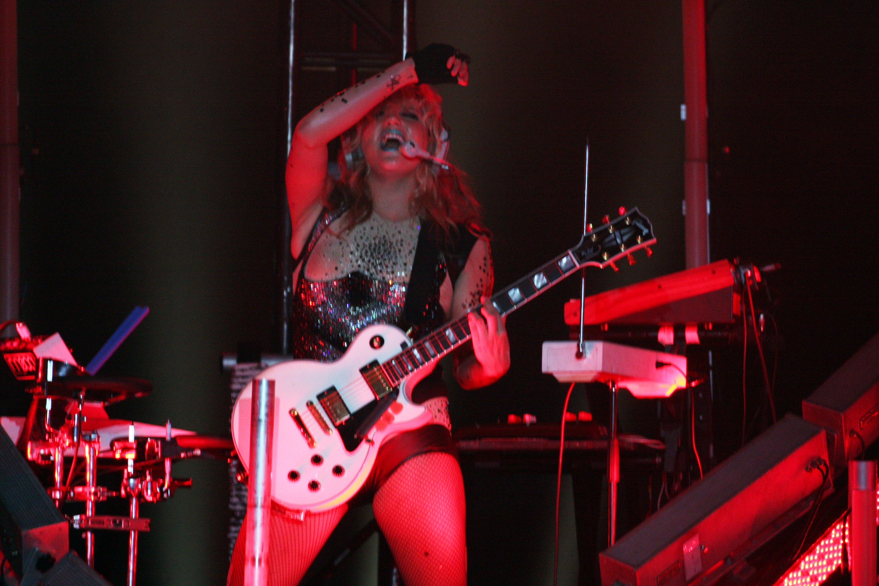 Kesha Hordern Pavilion Australia